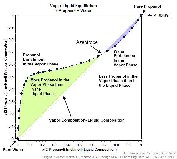 Vapour-Liquid Equilibrium of 2-Propanol and Water showing azeotropic behaviour